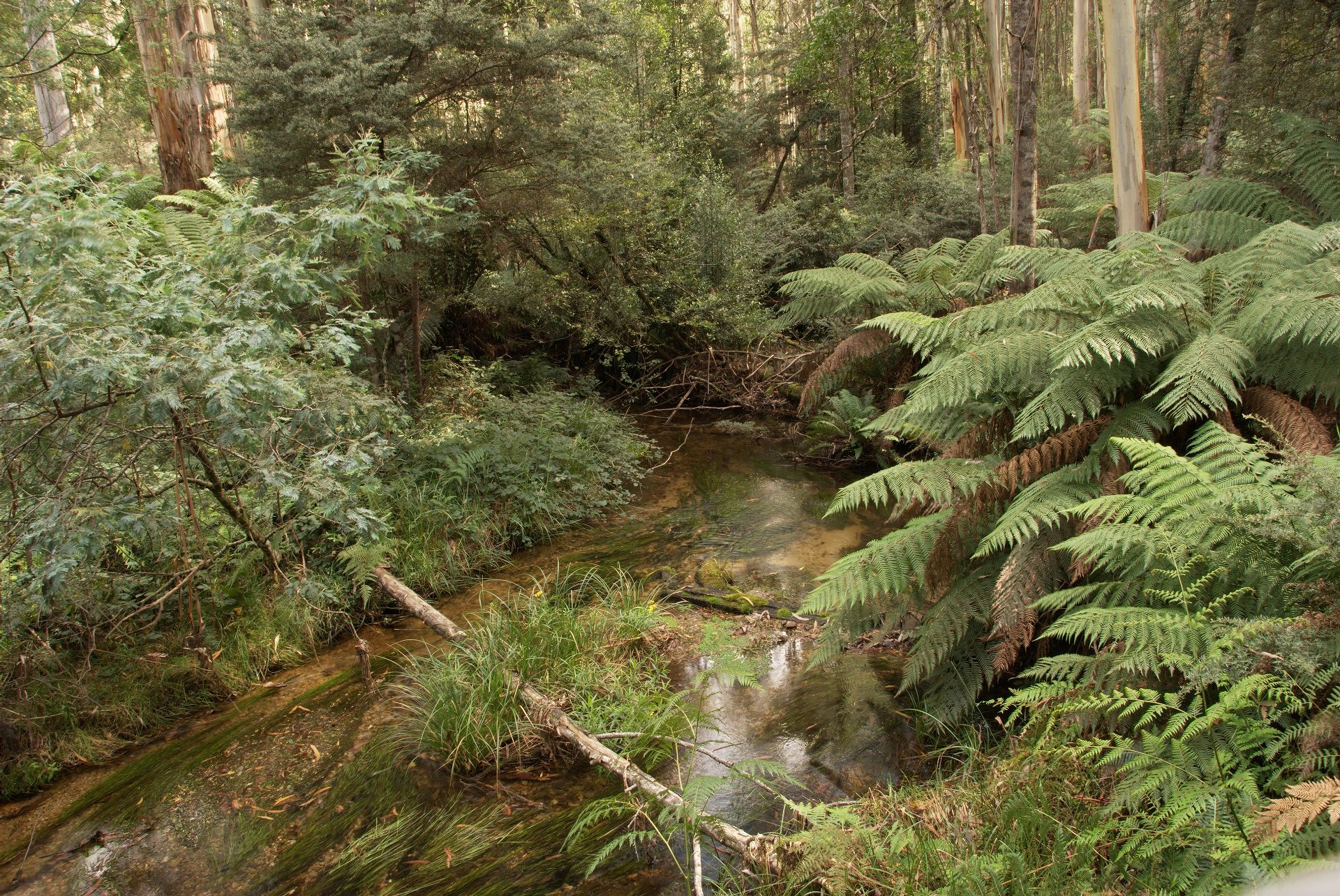 Bonang River from Bendoc Orbost Rd in East Gippsland 37°14′33″S 148°45′39″E / 37.2425°S 148.7608°E